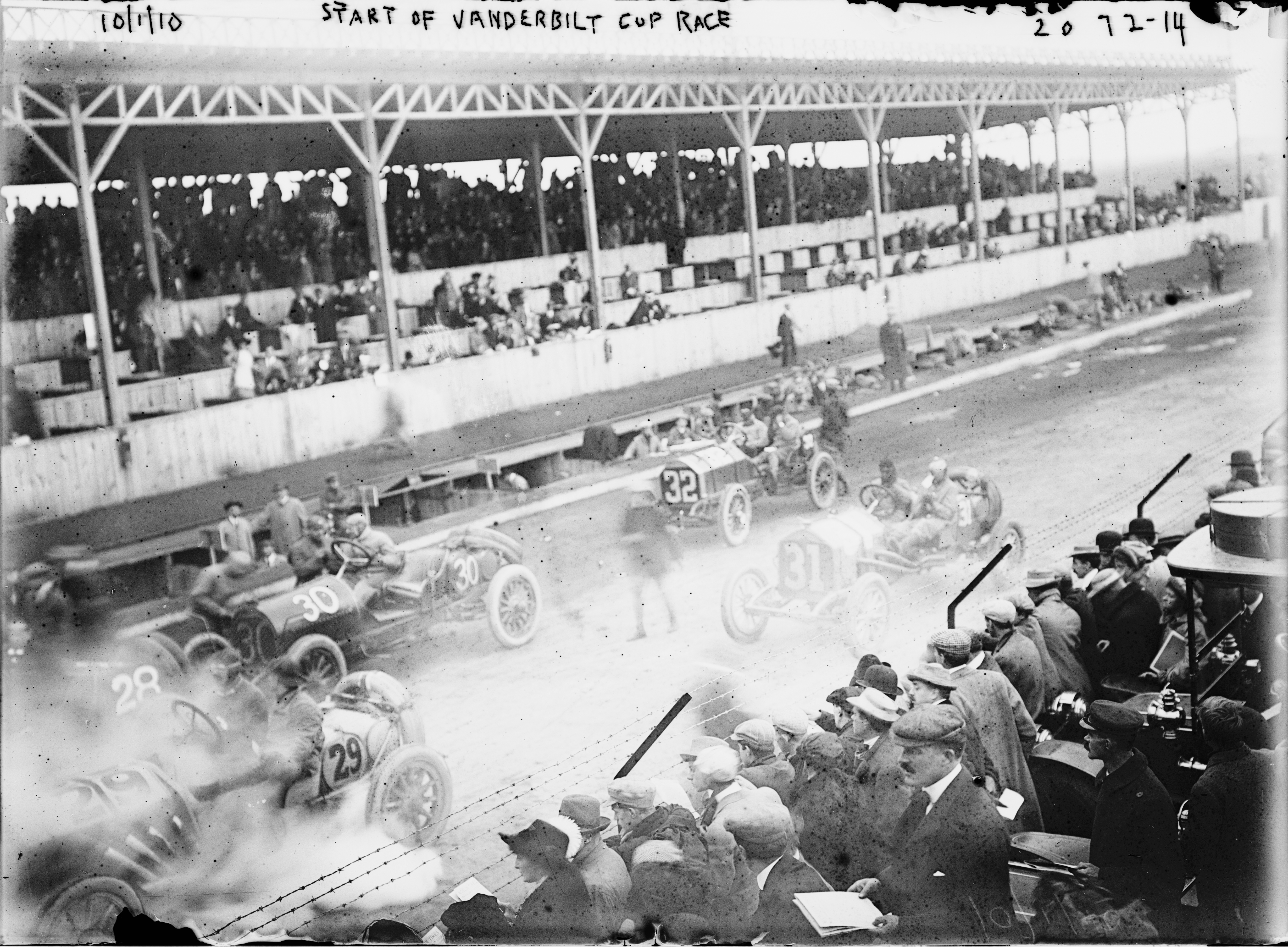 Start of the 1910 Vanderbilt Cup race. Seen are: #28 Apperson (USA) driven by Harris Hanshue; #29 Marquette-Buick (USA) driving by Louis Chevrolet; #30 Royal Tourist (USA) driven by P.H. Jardine; #31 National (USA) driven by Louis Disbrow and #32 Knox (USA) driven by Fred Belcher.